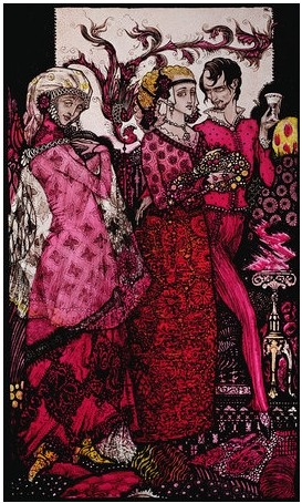 Bert the Bigfoot, Sung by Villon Cassandra, Ronsard found in Lyon